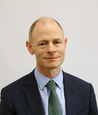 Irish politician Ossian Smyth of the Green Party, taken in 2020.